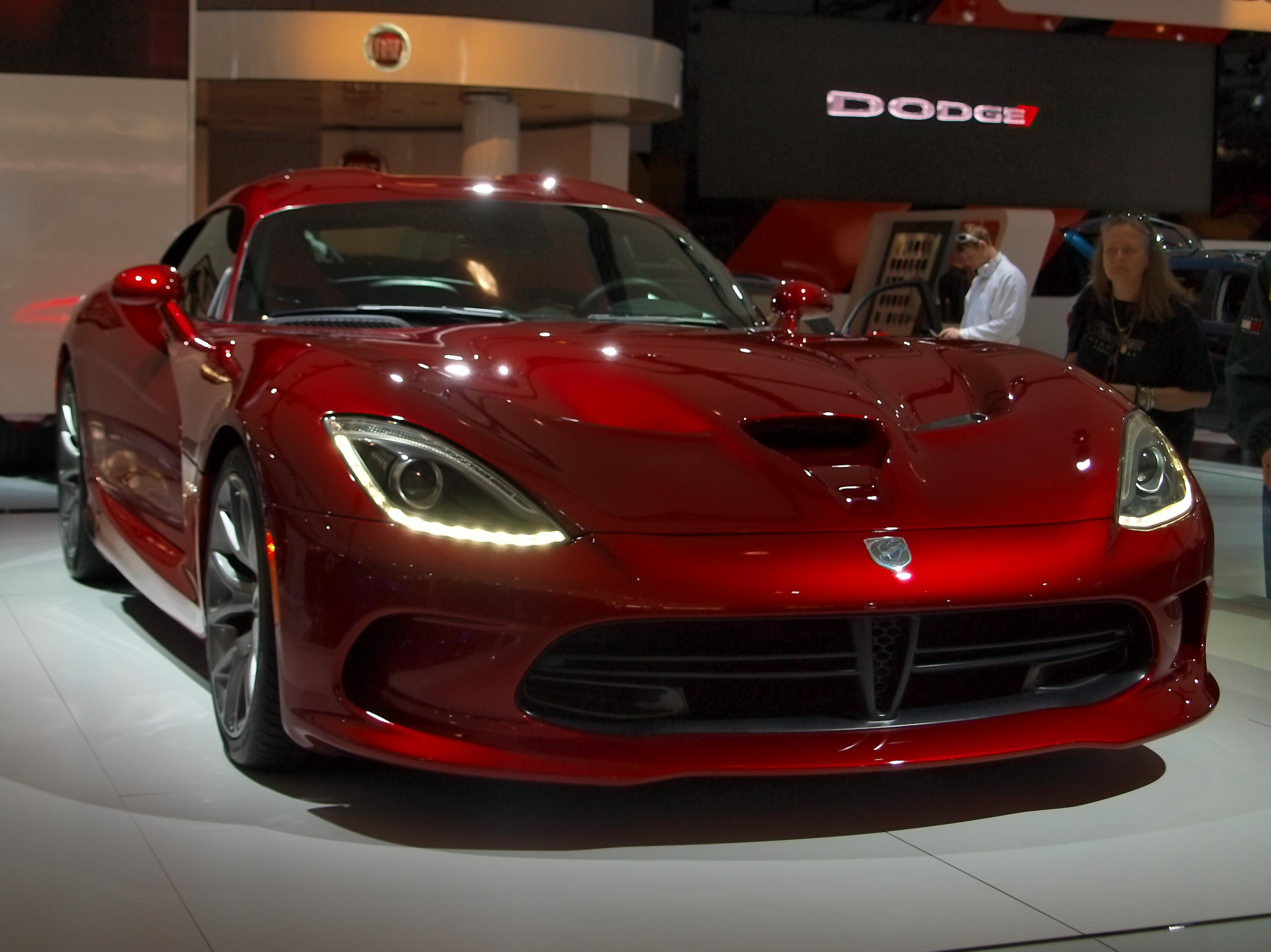 What a beautiful car! What are your thoughts? Yay or Nay?